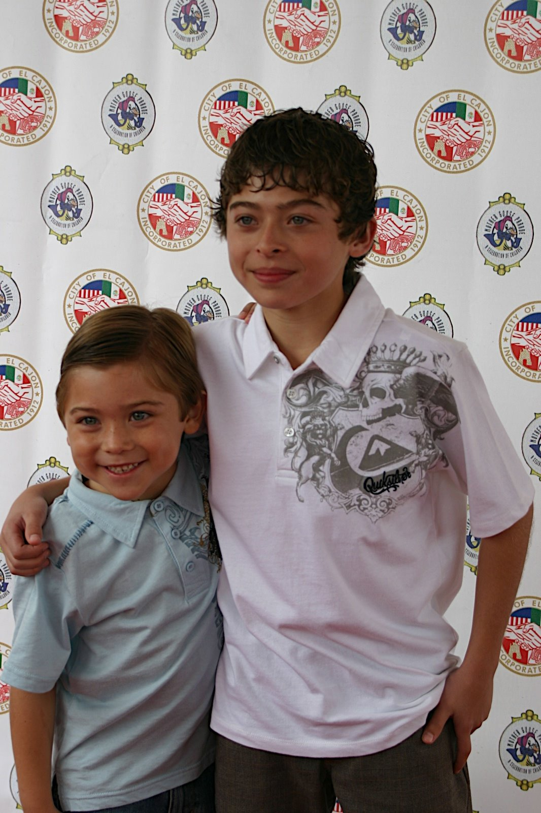 American child actors, brothers Raymond Ochoa (L) ("Cold Case") and Ryan Ochoa (R) ("The Perfect Game") on the red carpet at the 62nd Annual Mother Goose Parade in San Diego County. Photograph by Mother Goose Parade / Popular Press Media Group (PPMG) - .